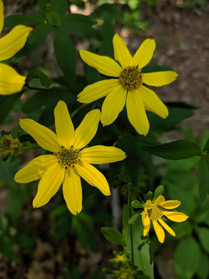 Coreopsis major, tickseed, flower